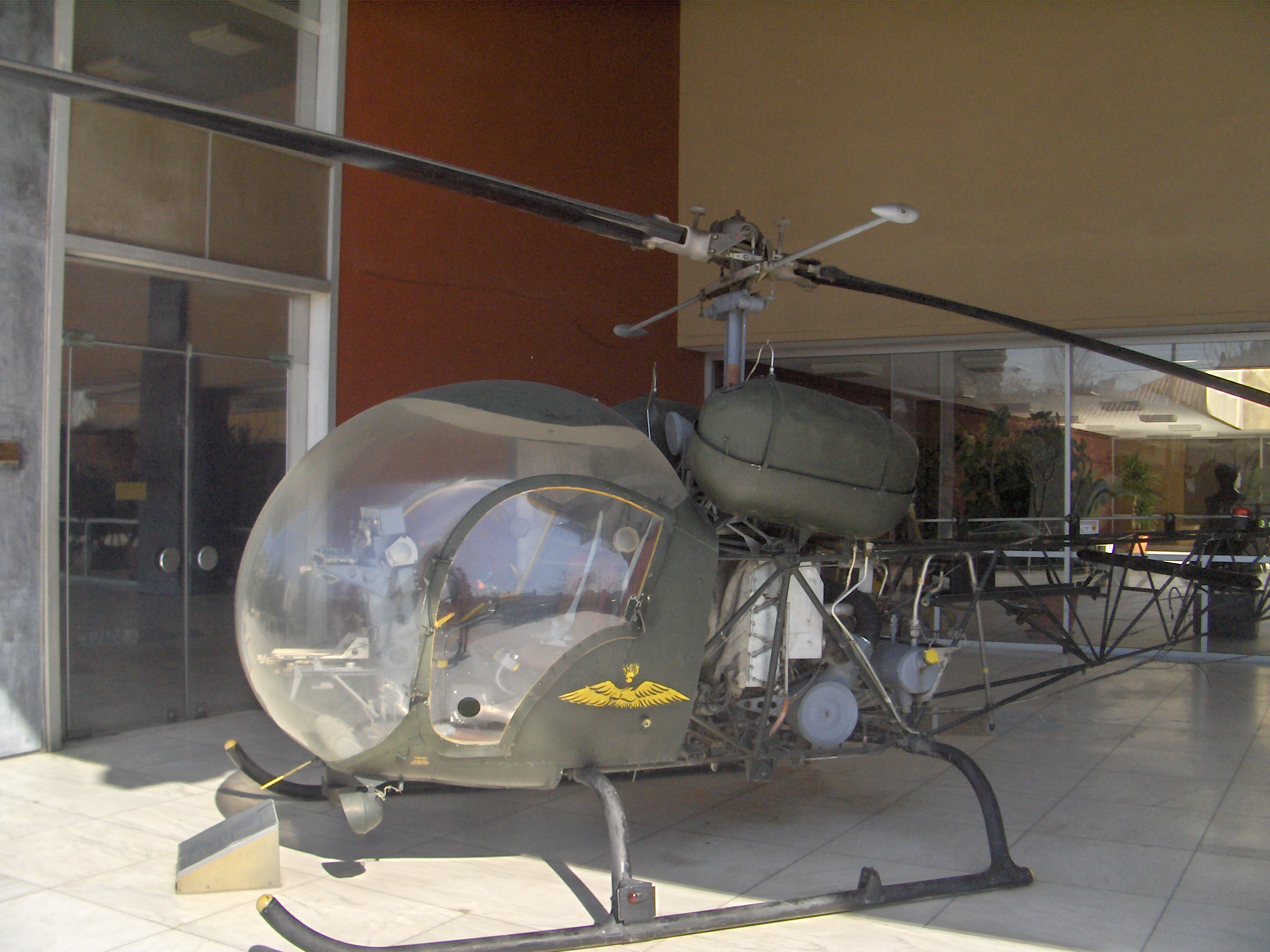 Exhibit at the War Museum in Athens.